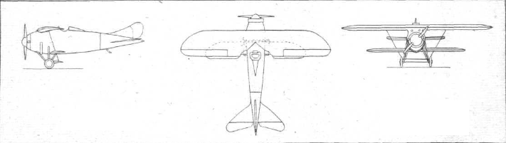 Hanriot H.26 general arrangement. The diagram, from March 1923 shows the wing plan seen at the December 1922 Paris Show and the wire rather than strut braced wings. The vertical tail is also quite different from that seen a year later and perhaps from that of 1922, which is hard to seen in 1922 photos. It lacks the upright strut of the earliest design, which ran from the axle extremeties to the upper wing centre section but shows only V, not N-form, undercarriage struttage.